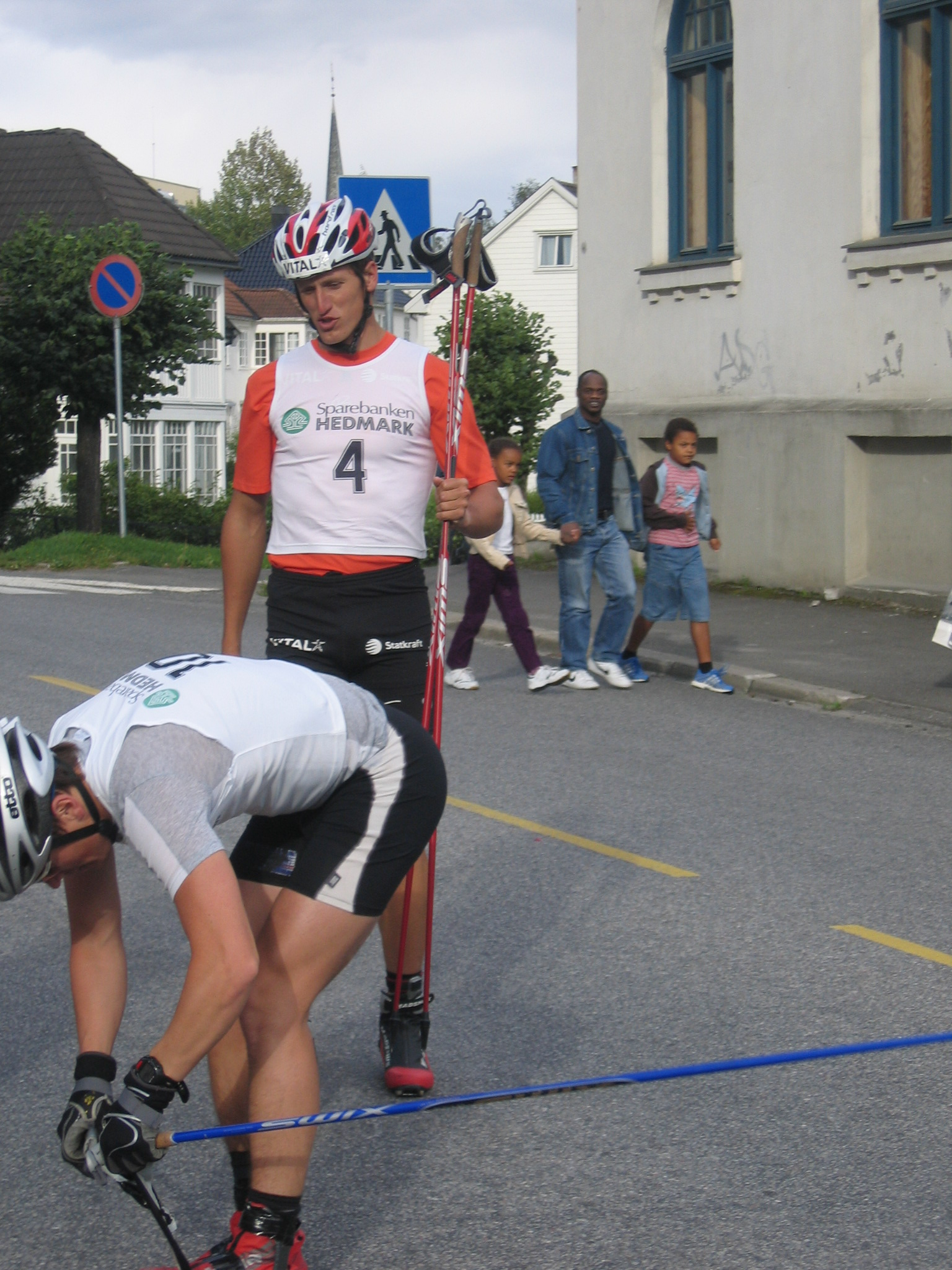 The Norwegian cross-country skiers Jan Egil Andresen & Lars Berger under Kirkebakken Grand Prix 2007 in Hamar, Norway.